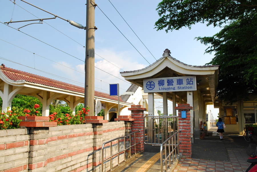 LiouYing Station is a local train station of Taiwan's Western main rail line. It's the main station of LiouYing Township, TaiNan County.